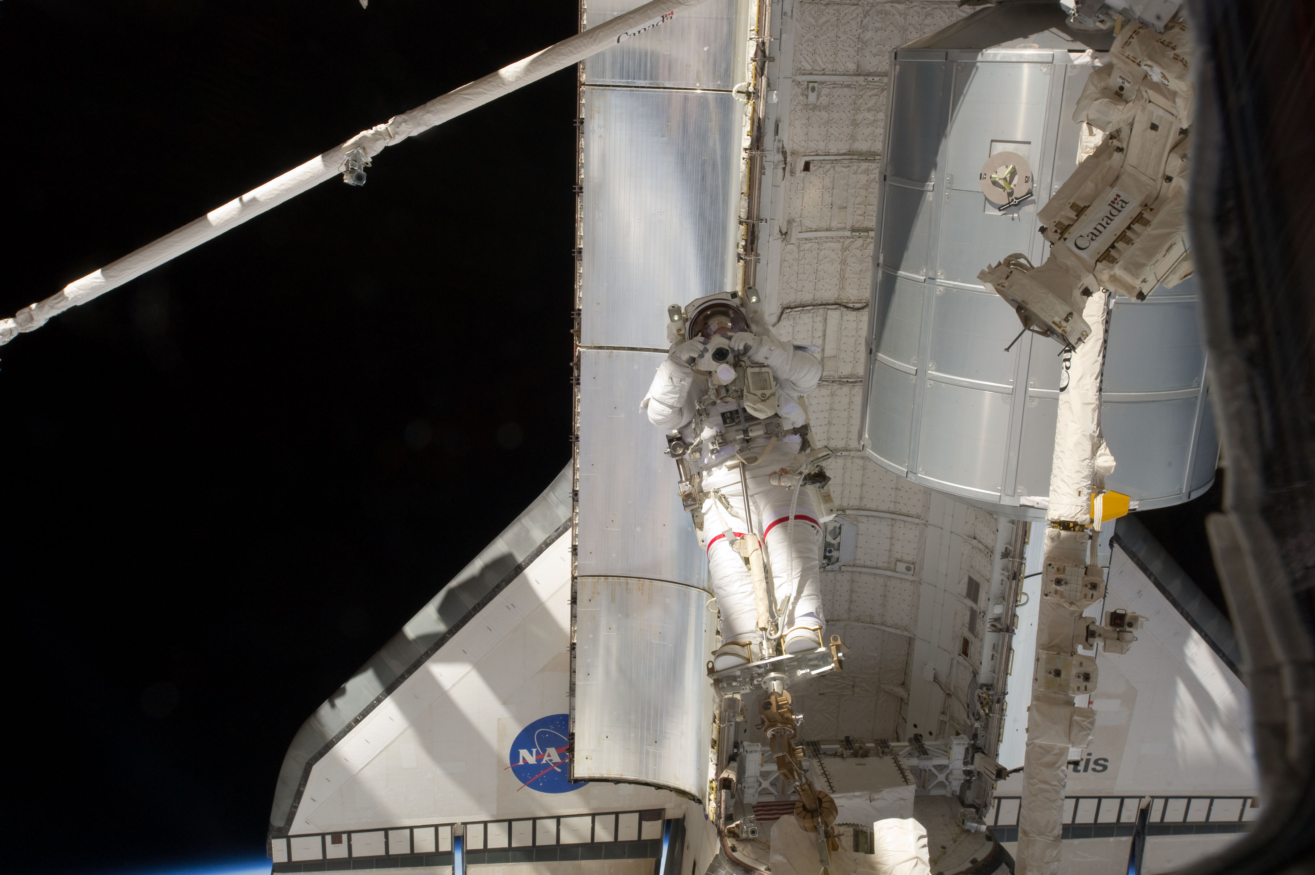 With the space shuttle Atlantis as a backdrop, and restrained on the end of the space station remote manipulator system or Canadarm2, NASA astronaut Mike Fossum takes a picture during a July 12 spacewalk. Fossum and NASA astronaut Ron Garan spent just a little over six and a half hours on their various tasks.